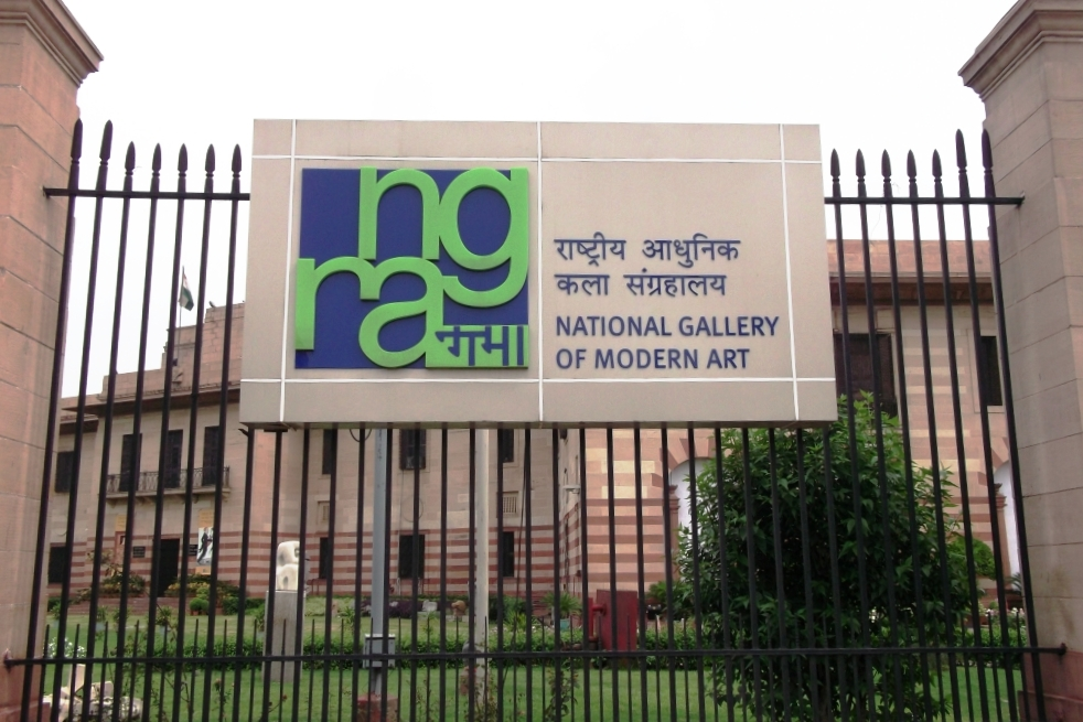 Guide emblem of National Art Gallery New Delhi